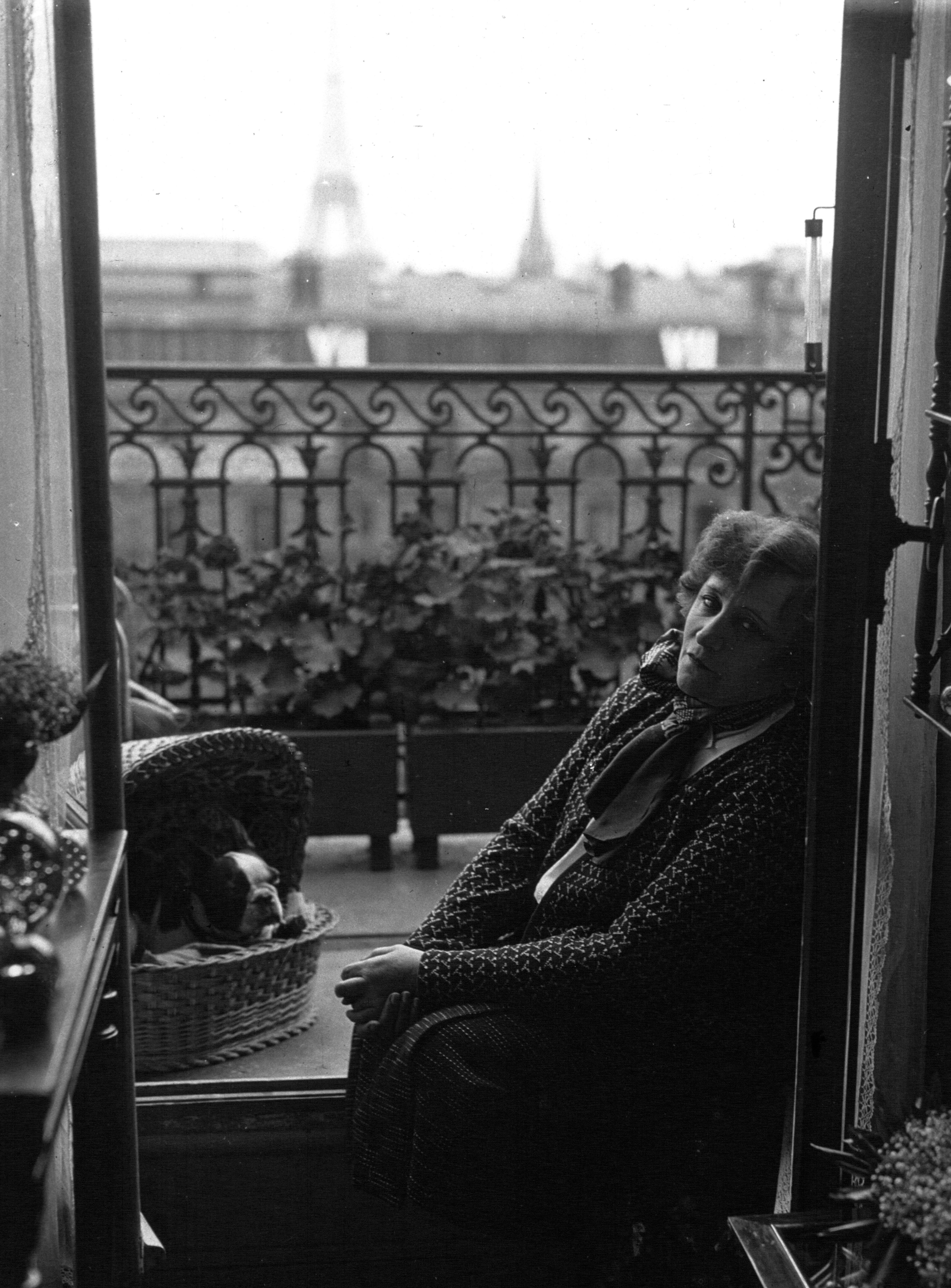 French writer Colette (1873-1954) by her balcony.